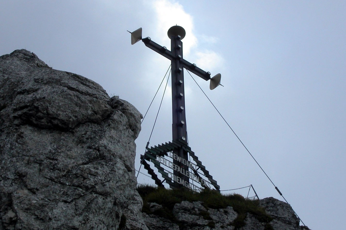 Kampenwand summit cross